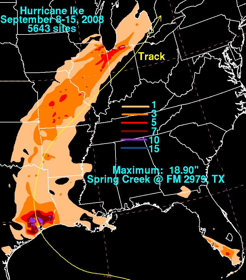 Rainfall produced by Hurricane Ike during September 2008.